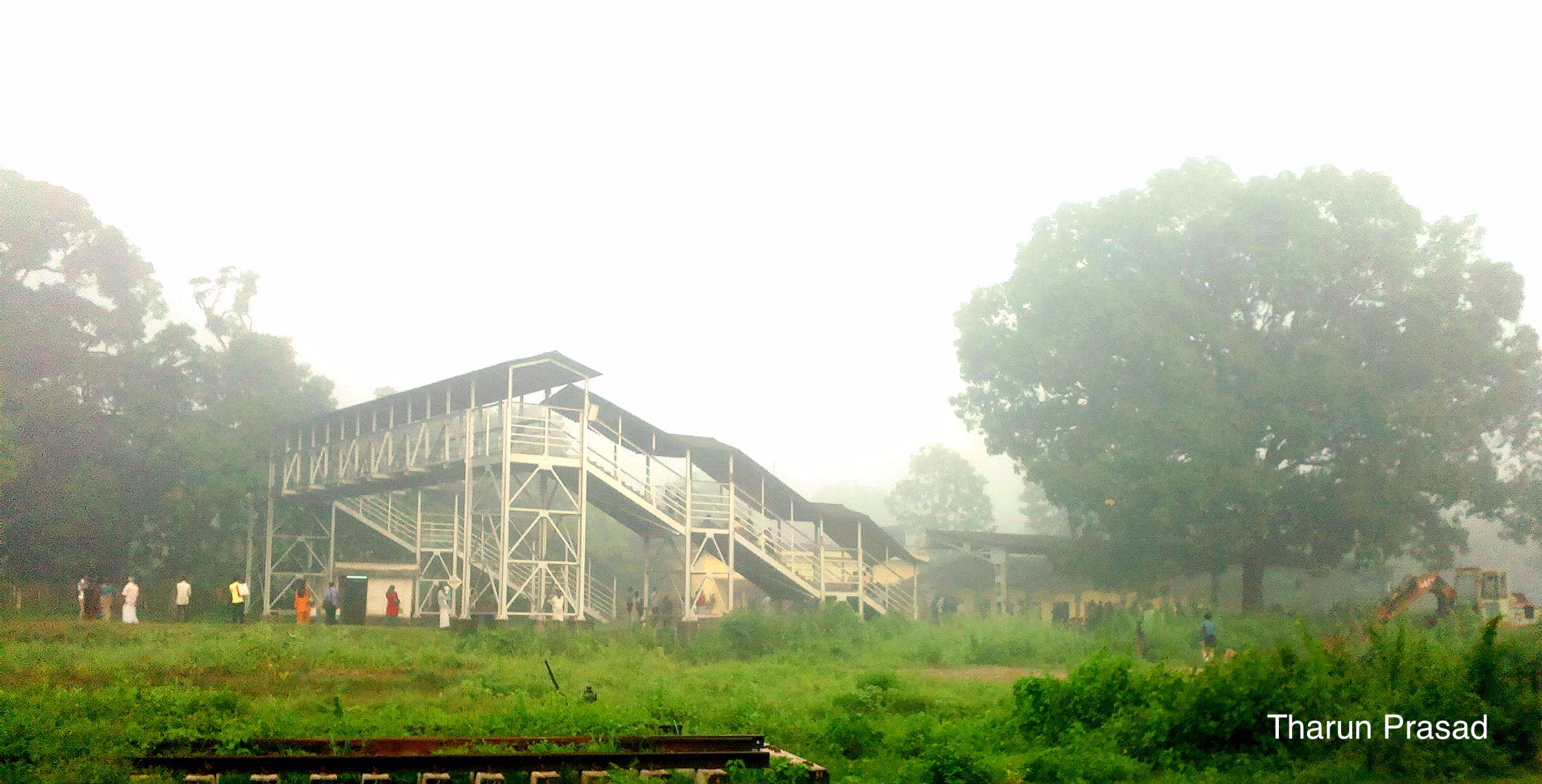 Thikkodi Railway Station 14-8-12